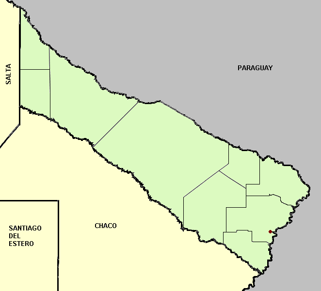 It shows administrative boundaries of Formosa province in Argentina, its departments and its capital (Formosa).